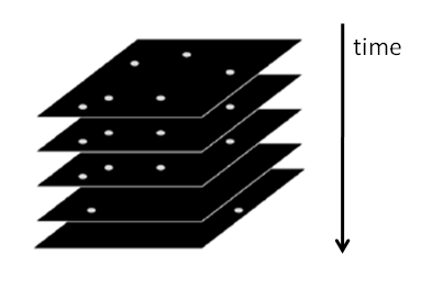 Schematics of a sequence of wide field frames containing isolated emitters